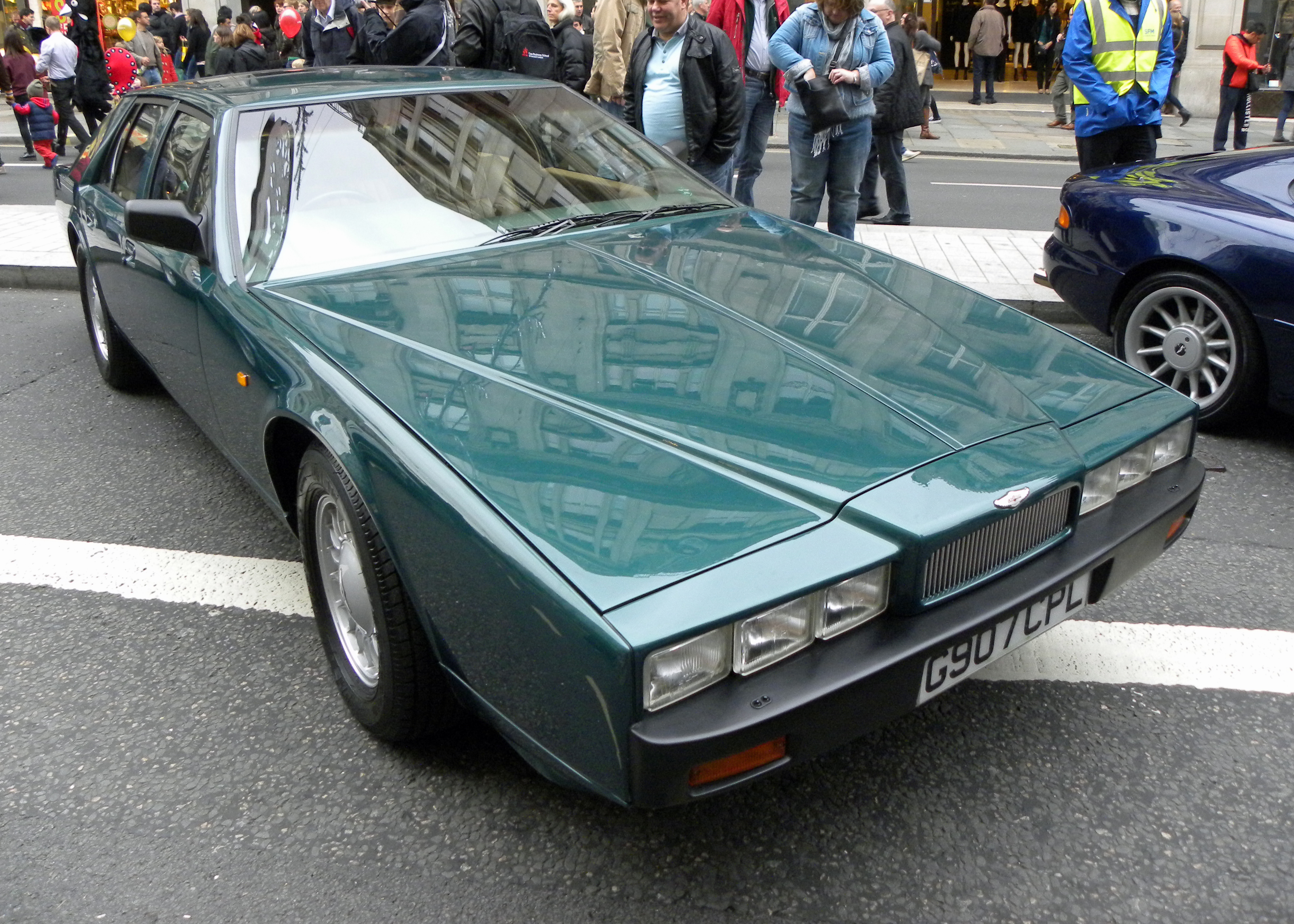 Aston Martin